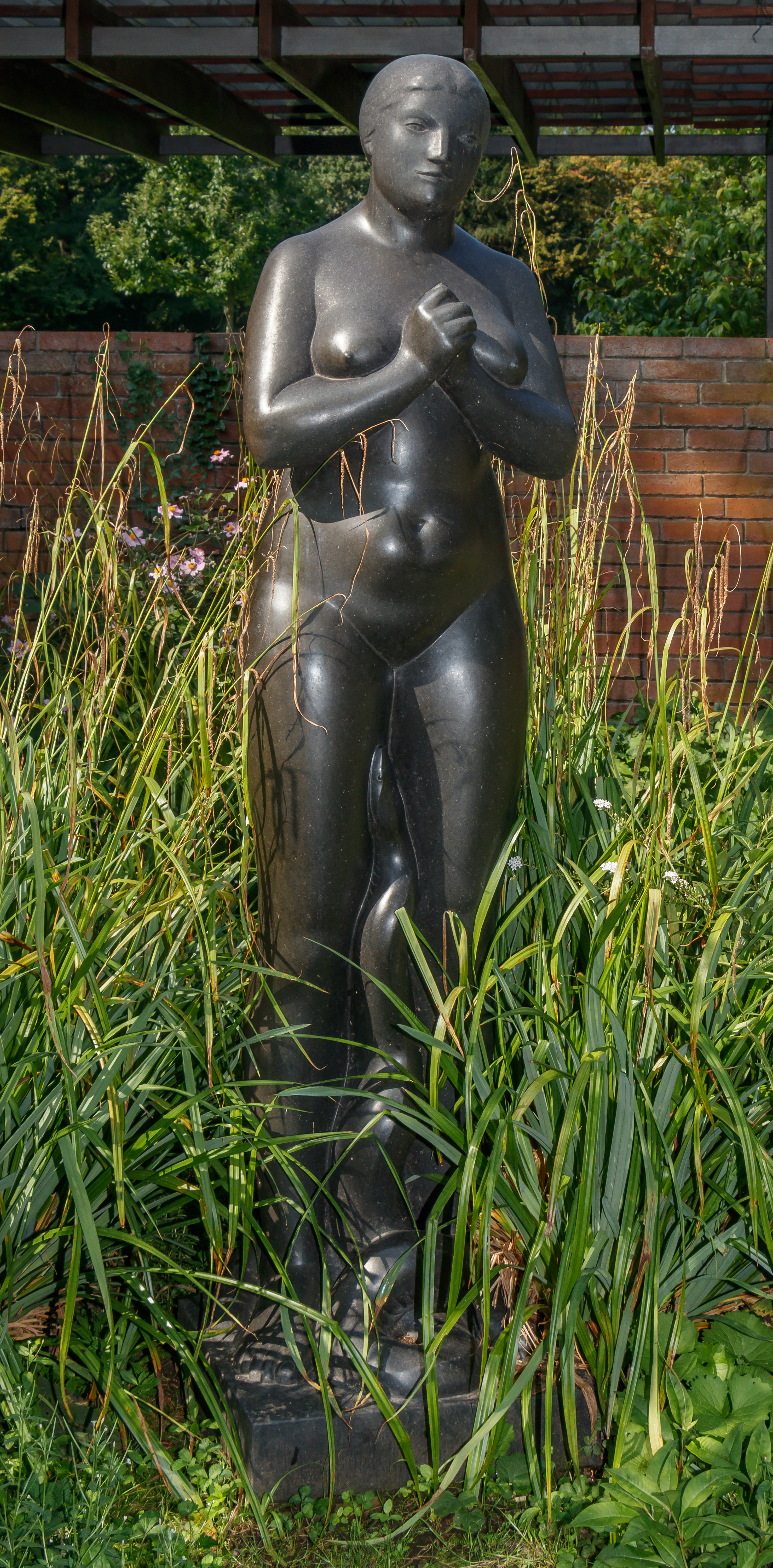 "Eva" by Christoph Voll (1931-34); Zoologischer Stadtgarten Karlsruhe, Karlsruhe, Germany.